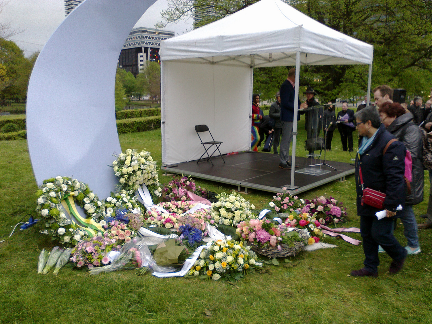 Commemoration at National Memorial Day of the Netherlands